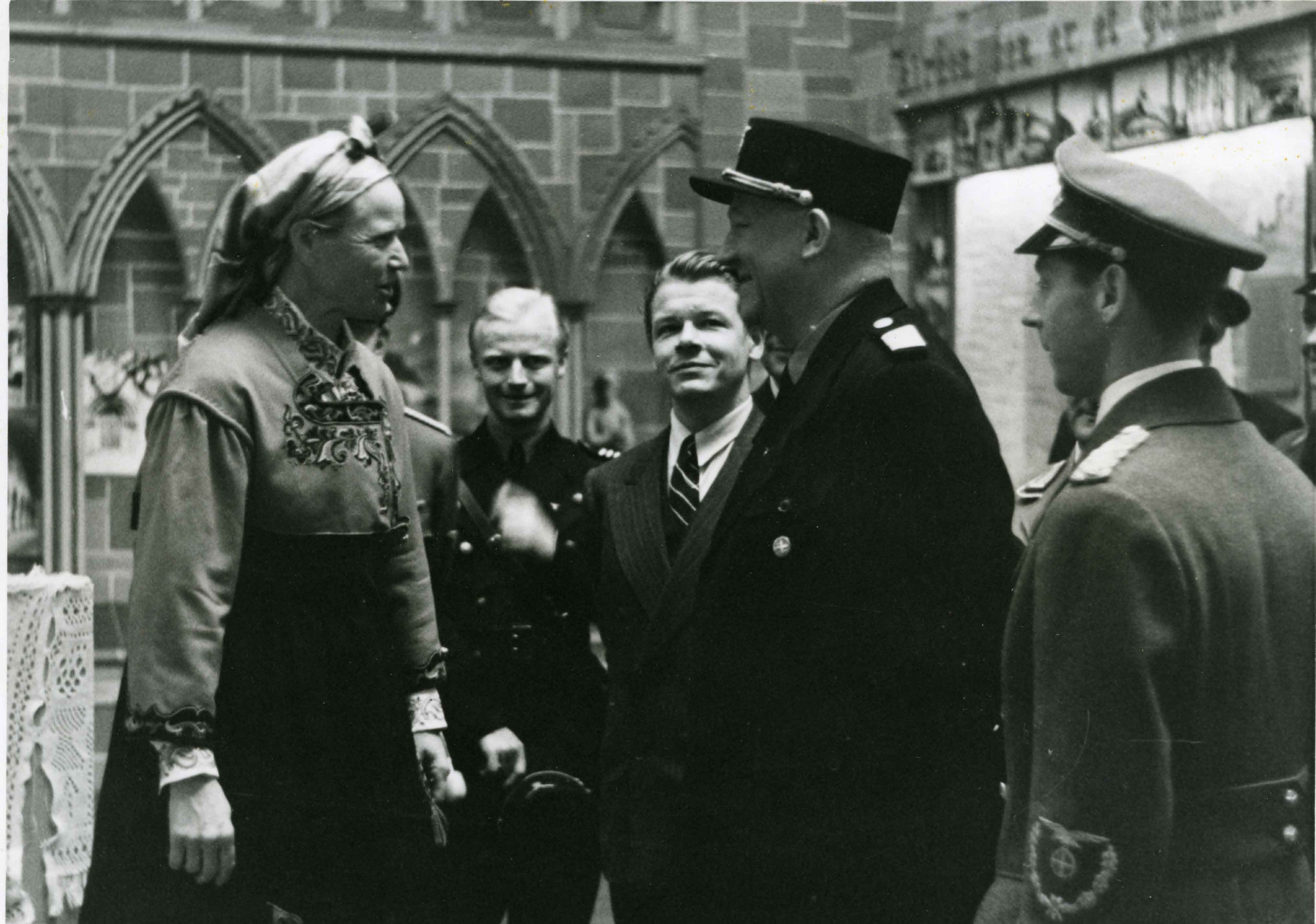 NS (the Norwegian Fascist party) held a total of seven party congresses in the 30s, but during the period 1940-1945 there was just one national meeting, the 8th national meeting in Oslo on September 26th and 27th 1942. An estimated 10,000 participants from across the country gathered in the capital for this party meeting. The extensive program included the major parades in which both labor service, women, SS, NSUF, and young party members paraded. There was a large memorial ceremony for the fallen in the Vigeland Park. The closing ceremony took place at Bislett Stadium.